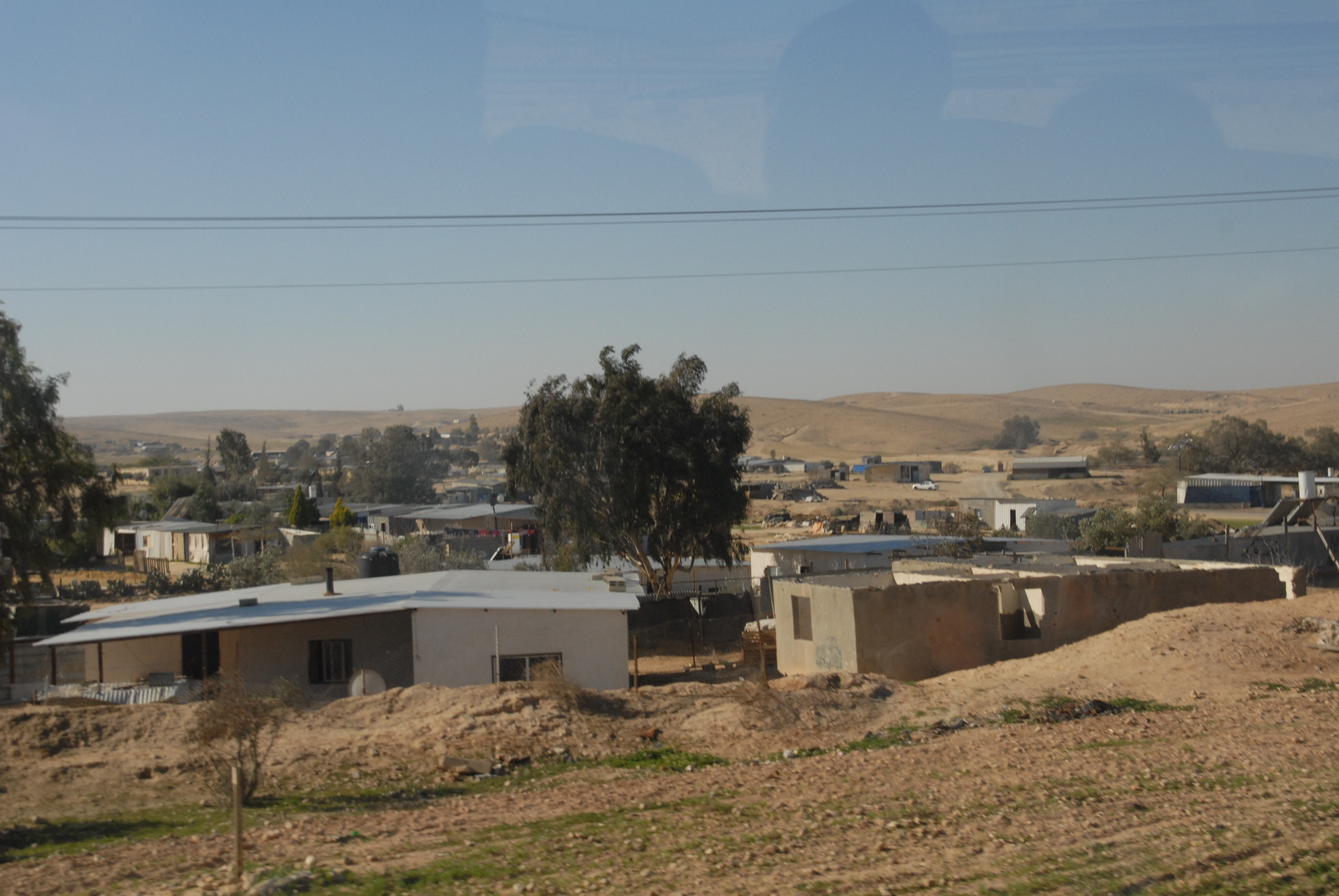 Settlements in Israel